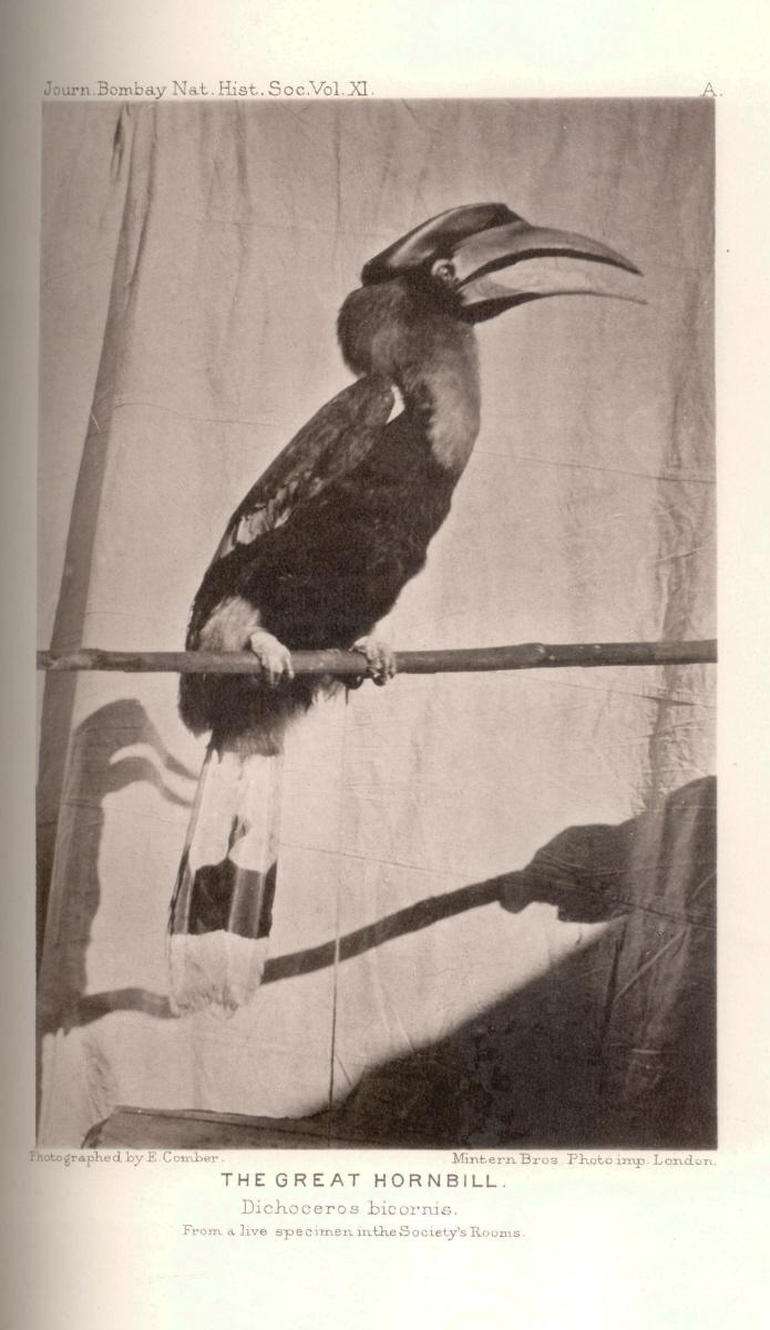 Photograph of the profile of the great Indian hornbill (Buceros bicornis), "William," by E. Comber (1897) published in "The Great Indian Hornbill in captivity," Journal of the Bombay Natural History Society, 1897, Vol 11, pages 307-308. Scanned from original journal copy by Fowler&fowlerÂ«TalkÂ» 16:23, 27 October 2007 (UTC)